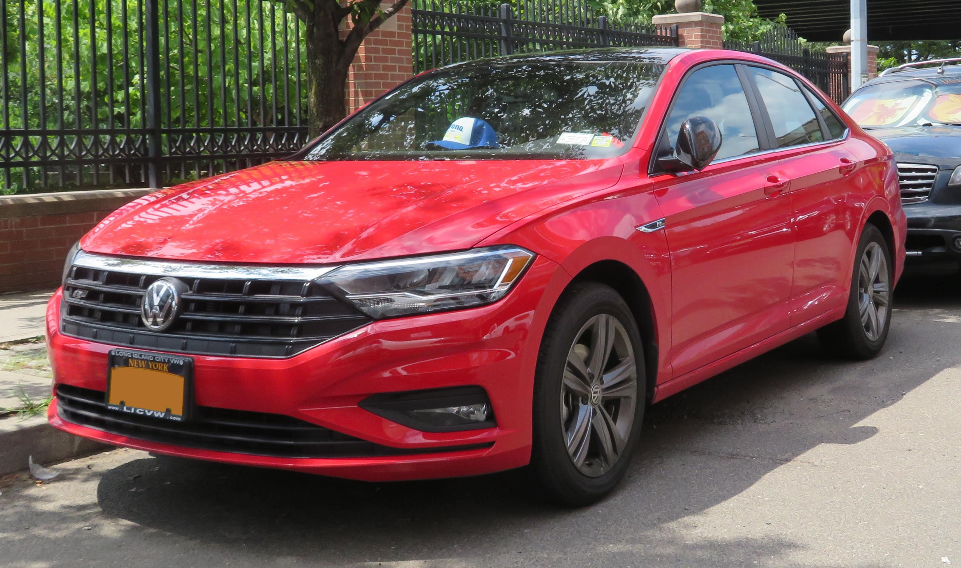 Photographed in vehicle, at Flushing(Queens), New York